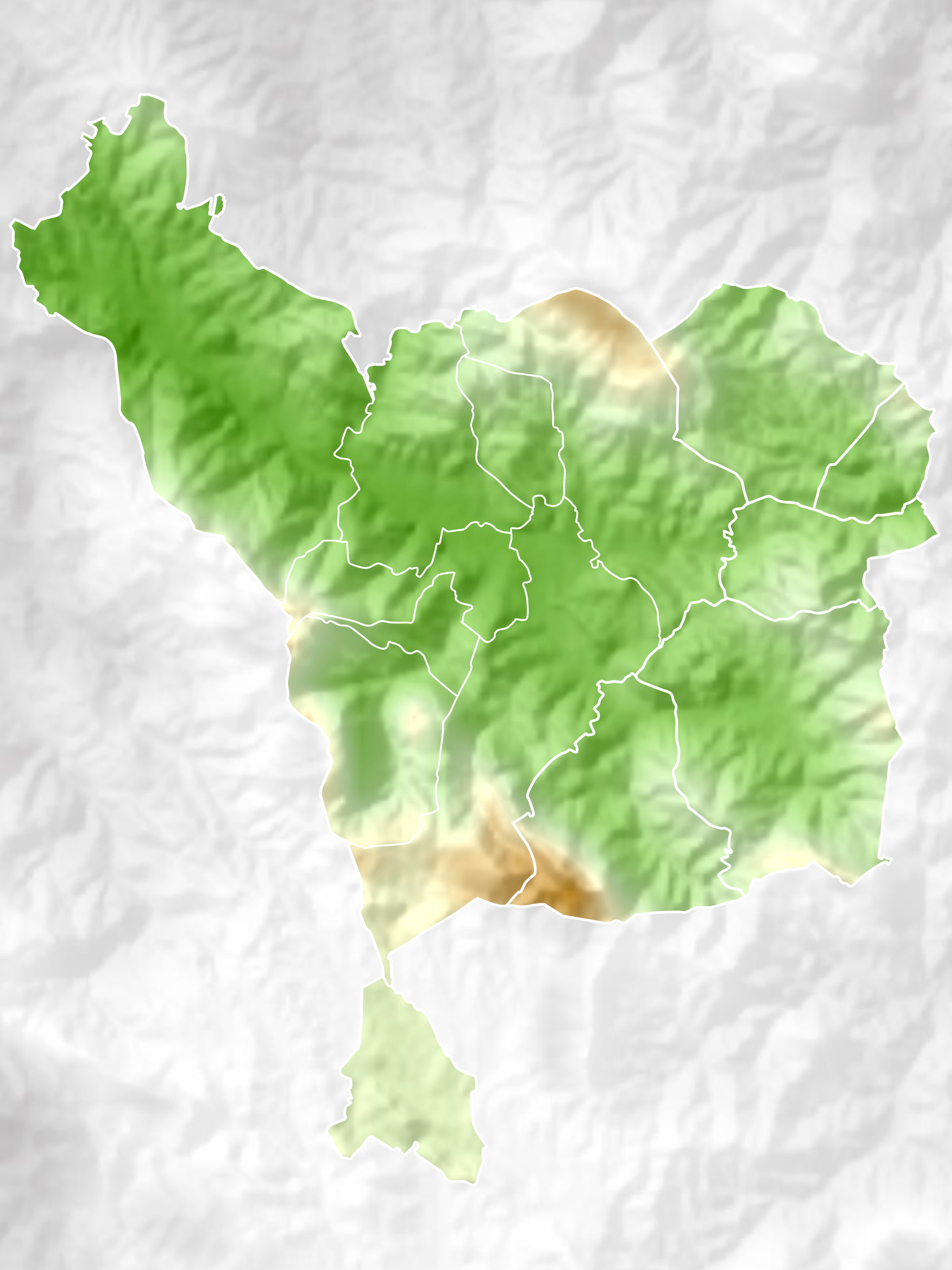 Durangaldea (Biscay) county map, with city limits and relief.